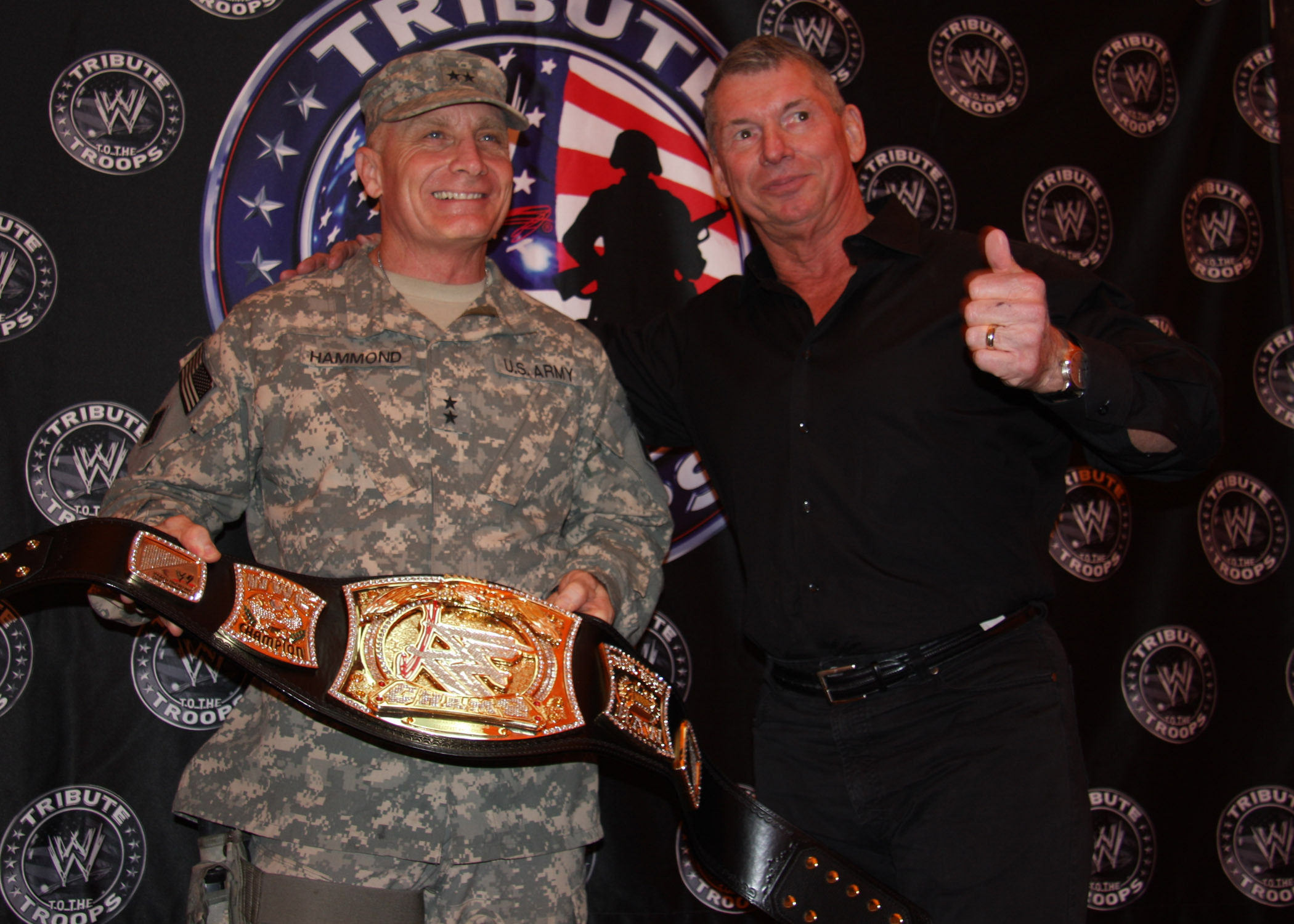 Maj. Gen. Jeffery Hammond, a Hattisburg, Miss. native, commanding general, Multi-National Division-Baghdad, poses with Vince McMahon, World Wrestling Entertainments chairman, before the WWE wrestlers took the ring during the Tribute to the Troops Tour held in front of the Al Faw Palace on Dec. 5.